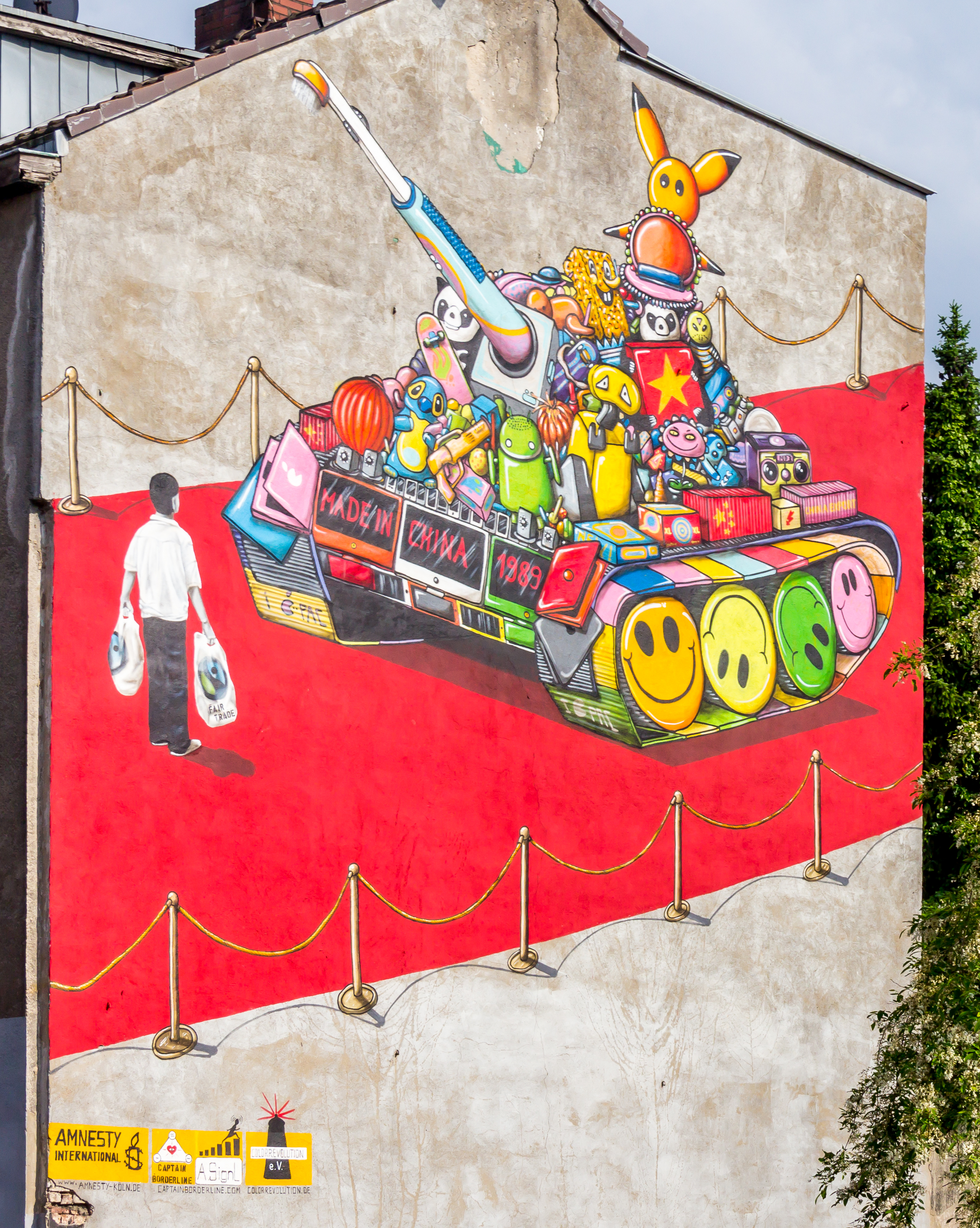 In a cooperation with amnesty international cologne and colorrevoluion e.V. to point on the human rights violations in China. In Remember of the Tiananmen Masaker from 1989